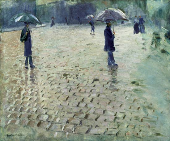 Rue de Paris, jour de pluie (étude)